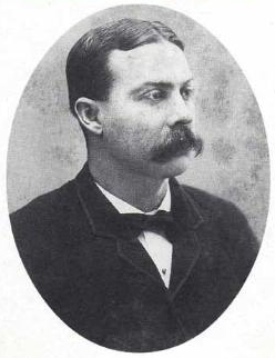 Dr. George Emory Goodfellow, the "gunfighter surgeon" of Tombstone, Arizona from 1879 to 1891.